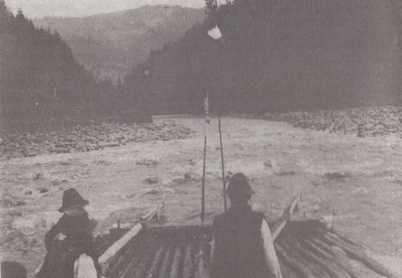 Cheremosh river